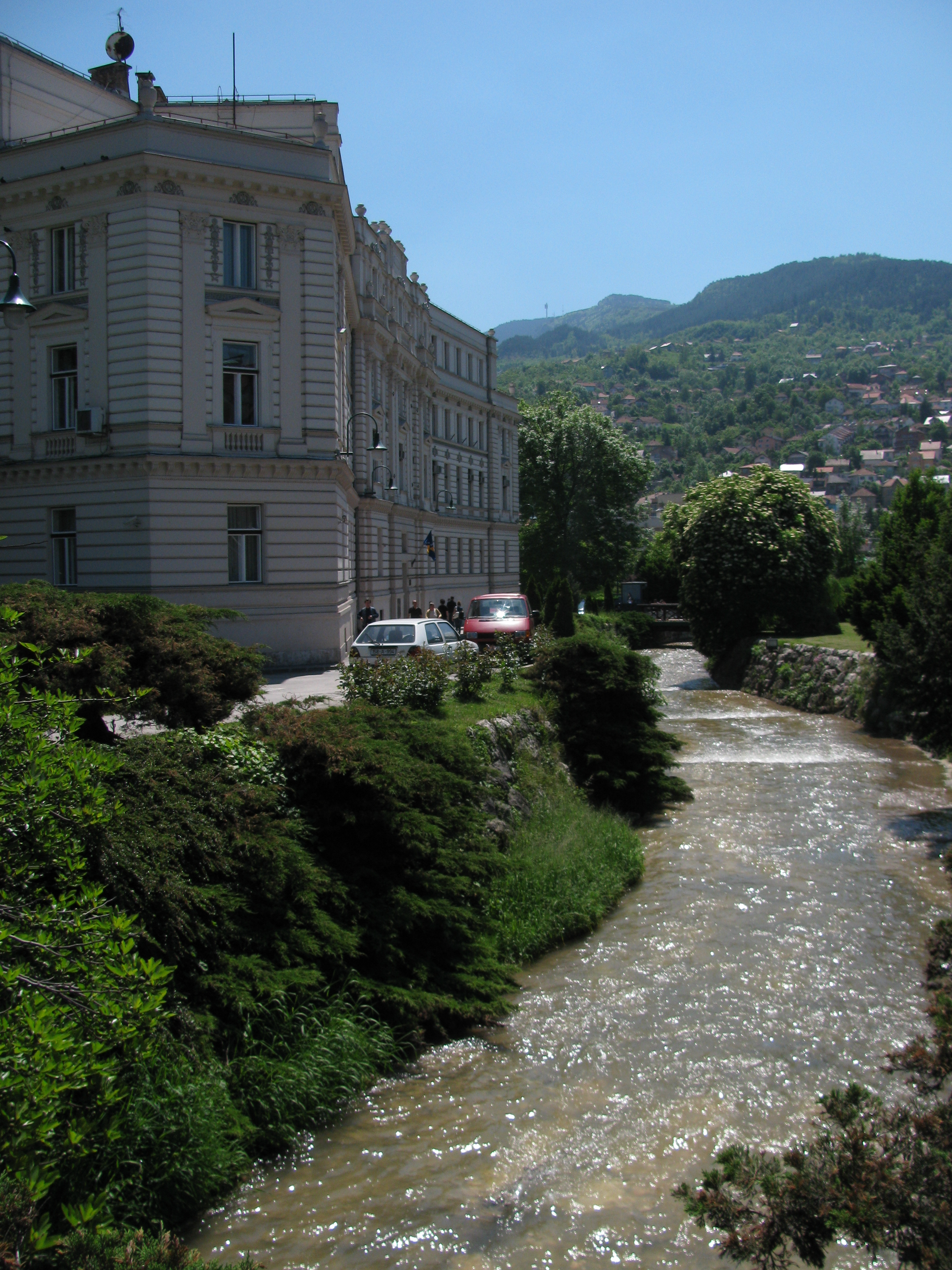 Koševski Potok joins Miljacka River at the heart of Sarajevo. Općina Centar Sarajevo building to the left.